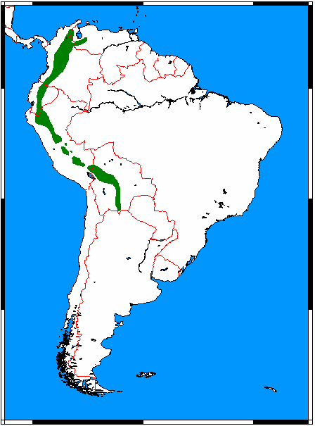 Spectacled Bear (Tremarctos ornatus) range map, made by me with help of Map depending on the range map at IUCN red list. Map includes national borders.